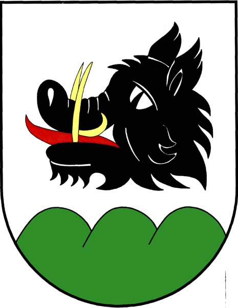 Municipal coat of arms of Vísky village, Rokycany District, Czech Republic.